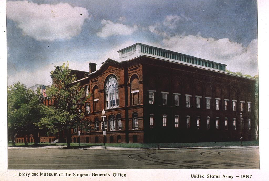 Library and Museum of the Surgeon General's Office, Washington, D.C.; Prints and Photographs Call Number: Z AD6 U56 C25 no. 21b; Hand-colored photograph, 1887